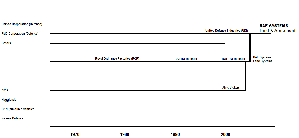 An overview of the evolution of BAE System Land & Armaments